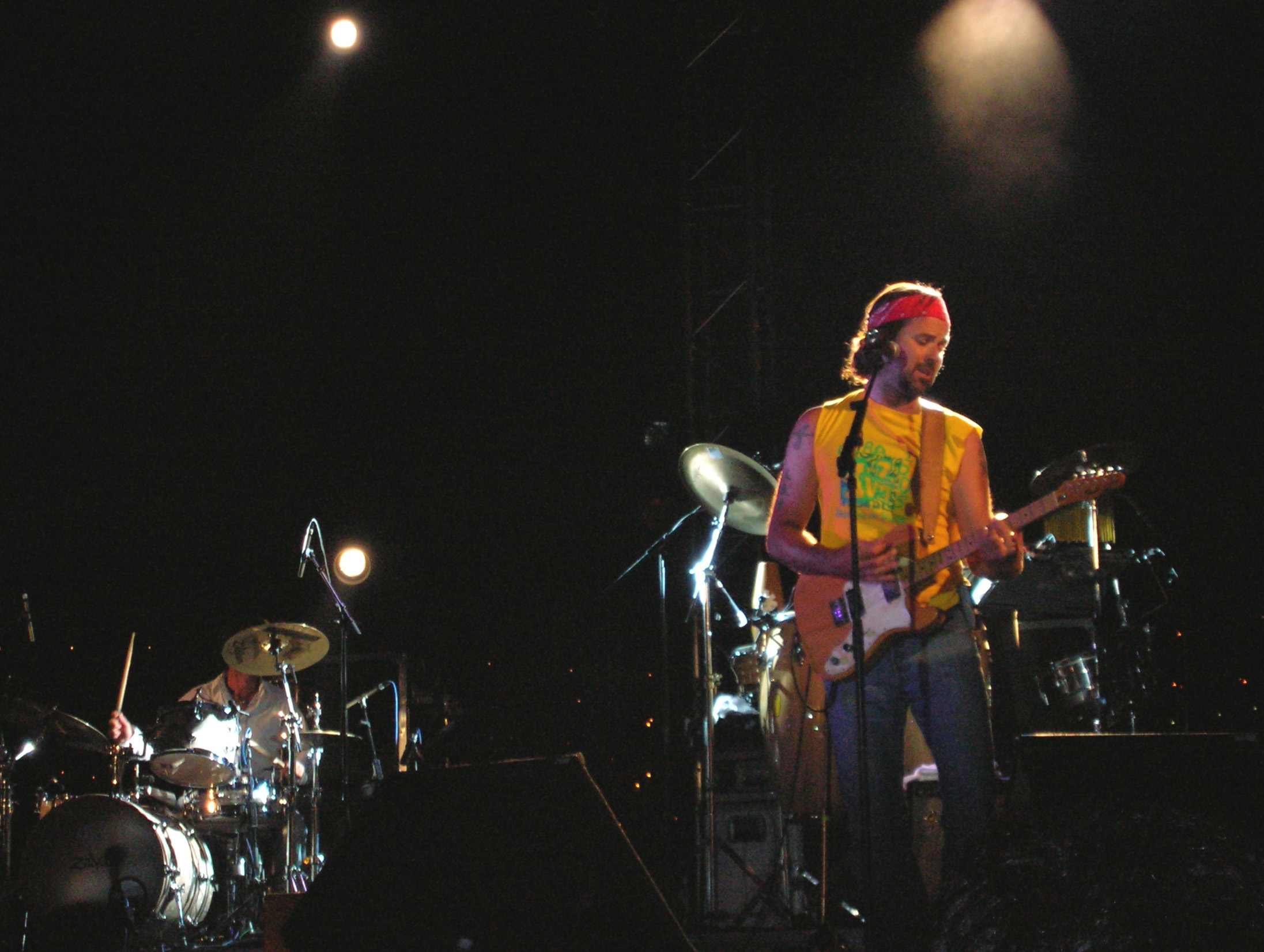 Jarabe de Palo (named Jarabe de Palo in 2005) playing live in Bilbao in the Museo Marítimo de Bilbao, due to the 705th anniversary of the town's foundation. In the front, singer and guitarrits Pau Donés. More pics of this concert in